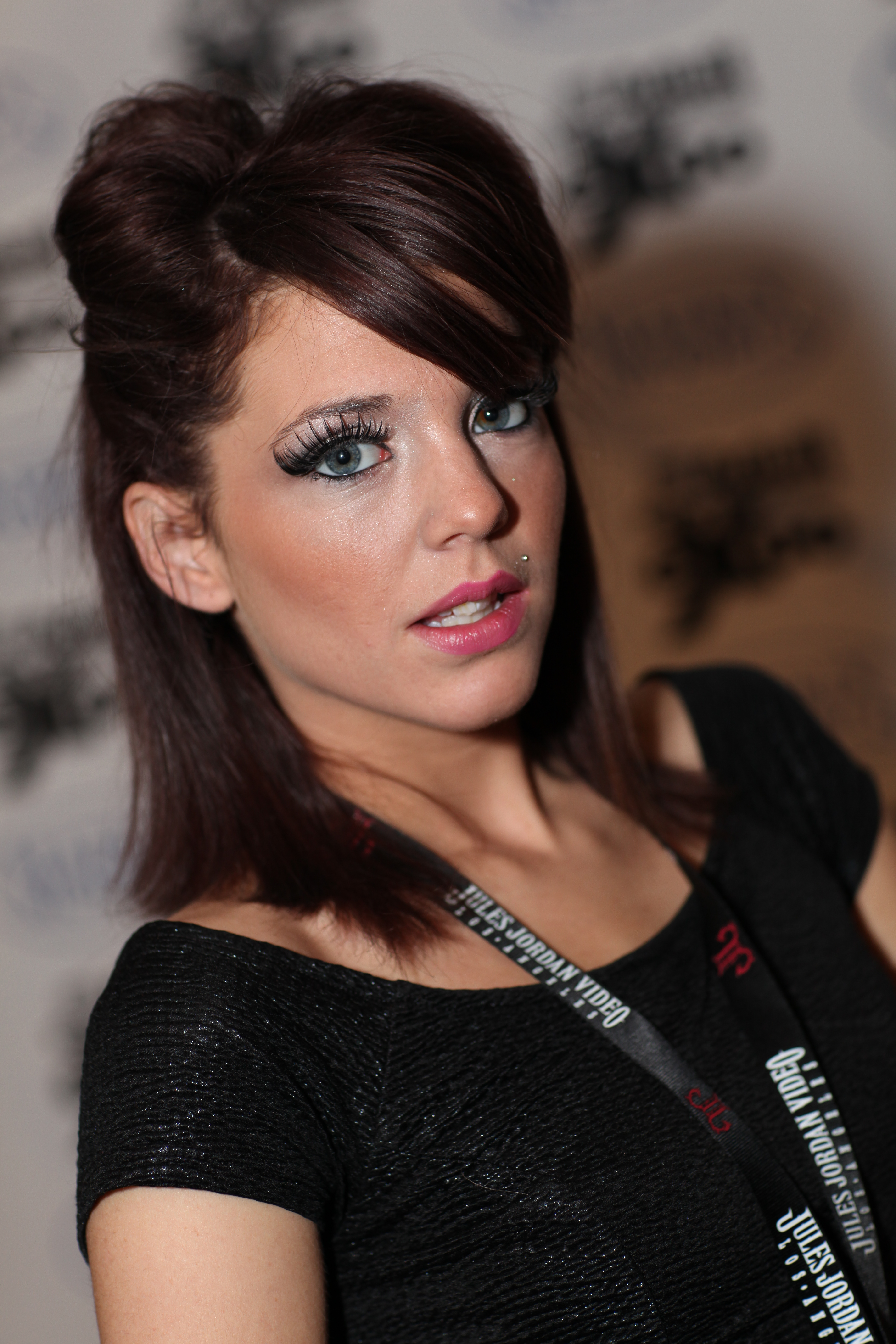 Kiera Winters - Photos from the 2013 AVN Expo & AVN Awards held at the Hard Rock Hotel & Casino in Las Vegas. Photo by Michael Dorausch. Please do tweet these photos but don't remove my copyright info without asking. This photo is licensed under a Creative Commons license. If you use this photo within the terms of the license or make special arrangements to use the photo, please list the photo credit as "Michael Dorausch" and link the credit to .